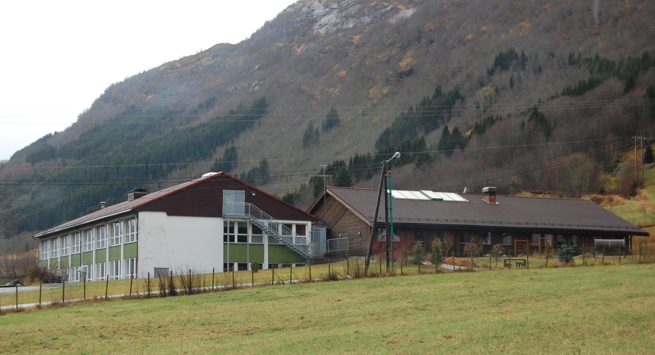 The school in Viksdalen, Gaular municipality, Sogn og Fjordane county